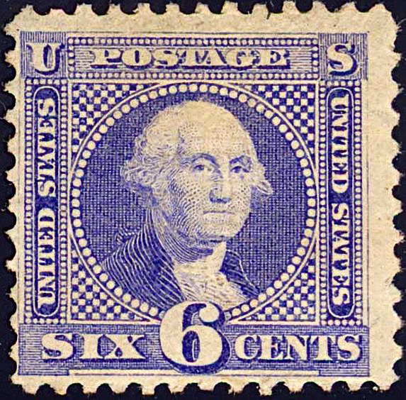 US Postage stamp: George Washington, 1869 issue, 6c, pale ultramarine